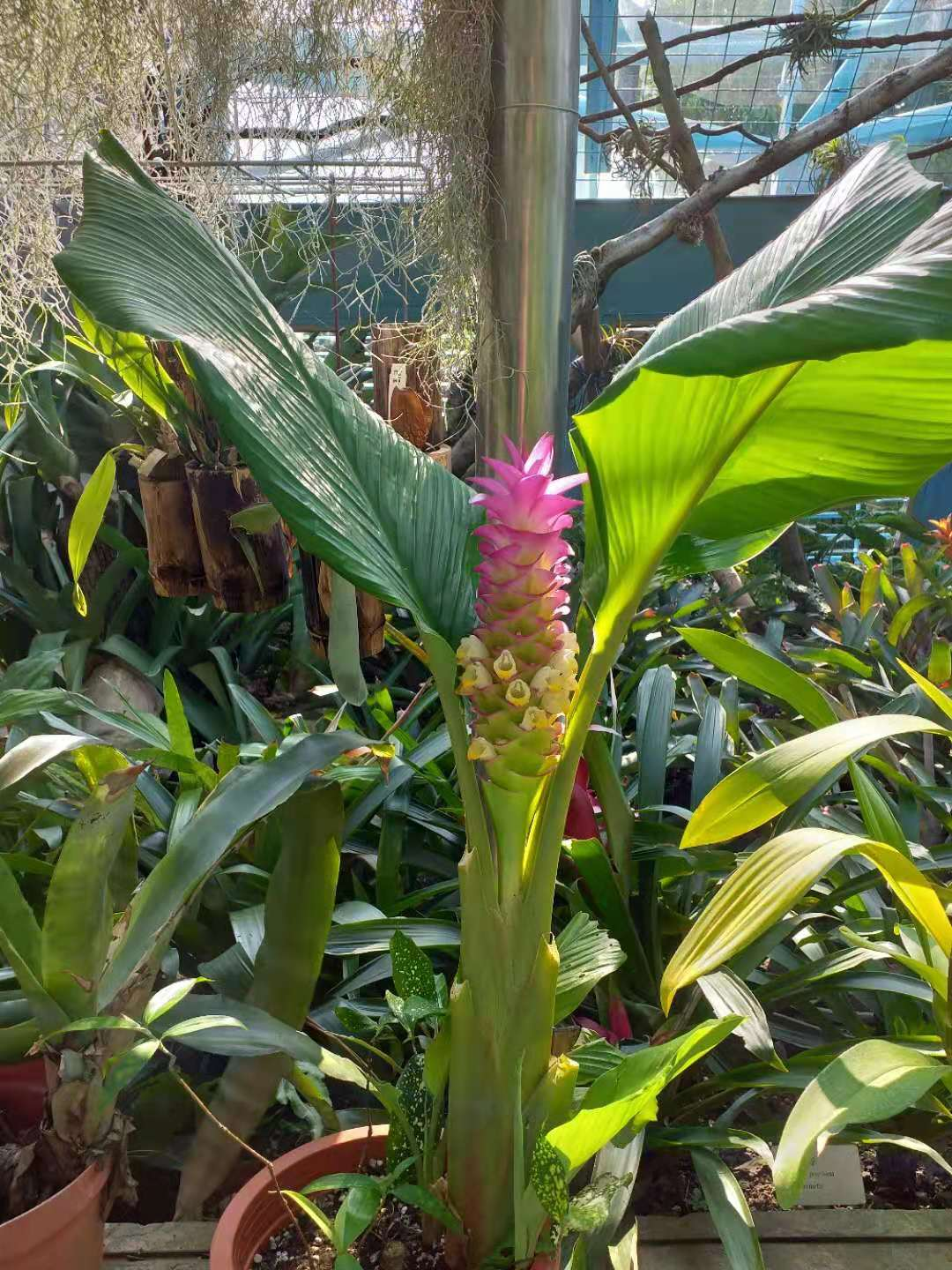 Curcuma petiolata Roxb. Botanical Garden of National Museum of Natural Science, Taichung, Taiwan.